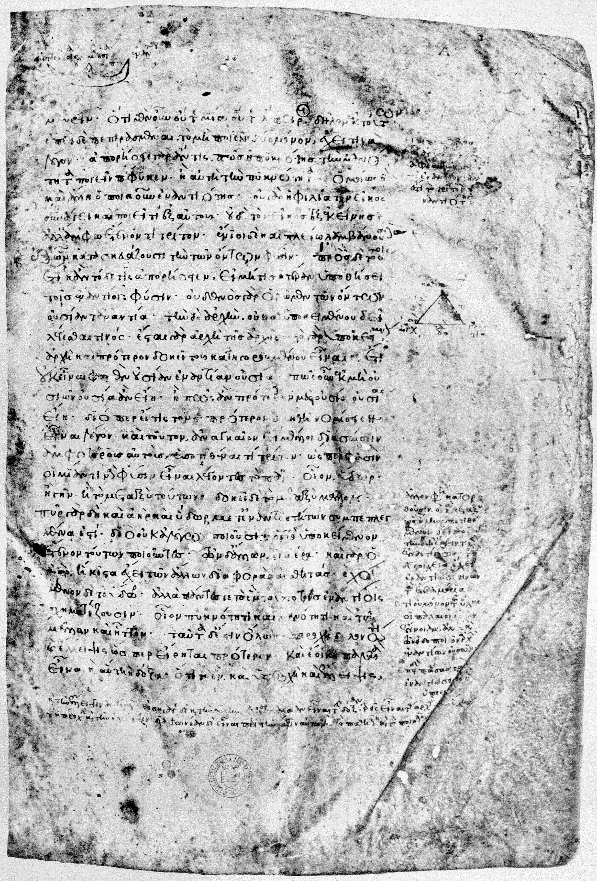 Page of the Codex Oxoniensis Clarkianus 39 (Clarke Plato). Folium A1 (first page).